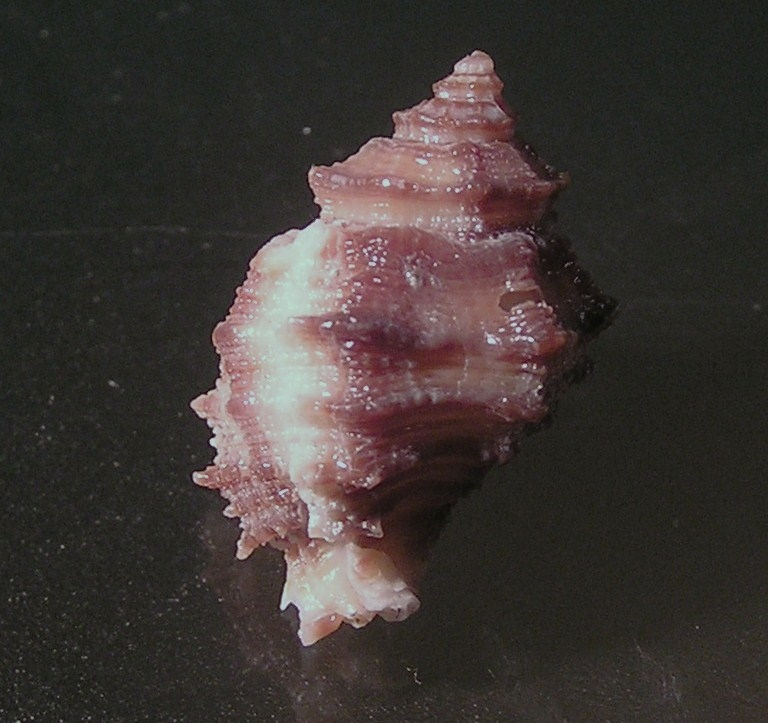 Ergalatax crassulnata Hedley, 1915; a murex snail from the family Muricidae; Australia